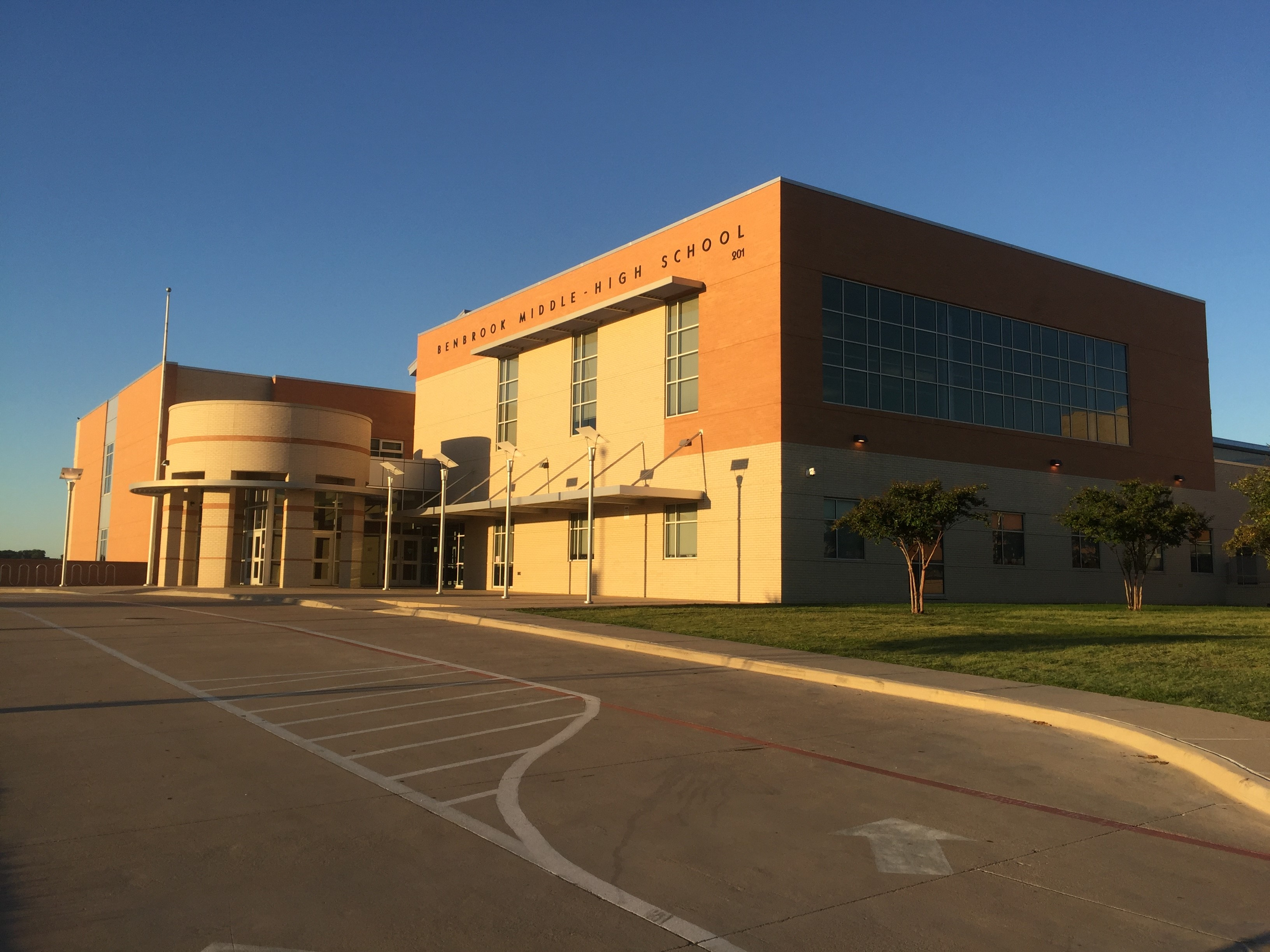 A look a the main building.